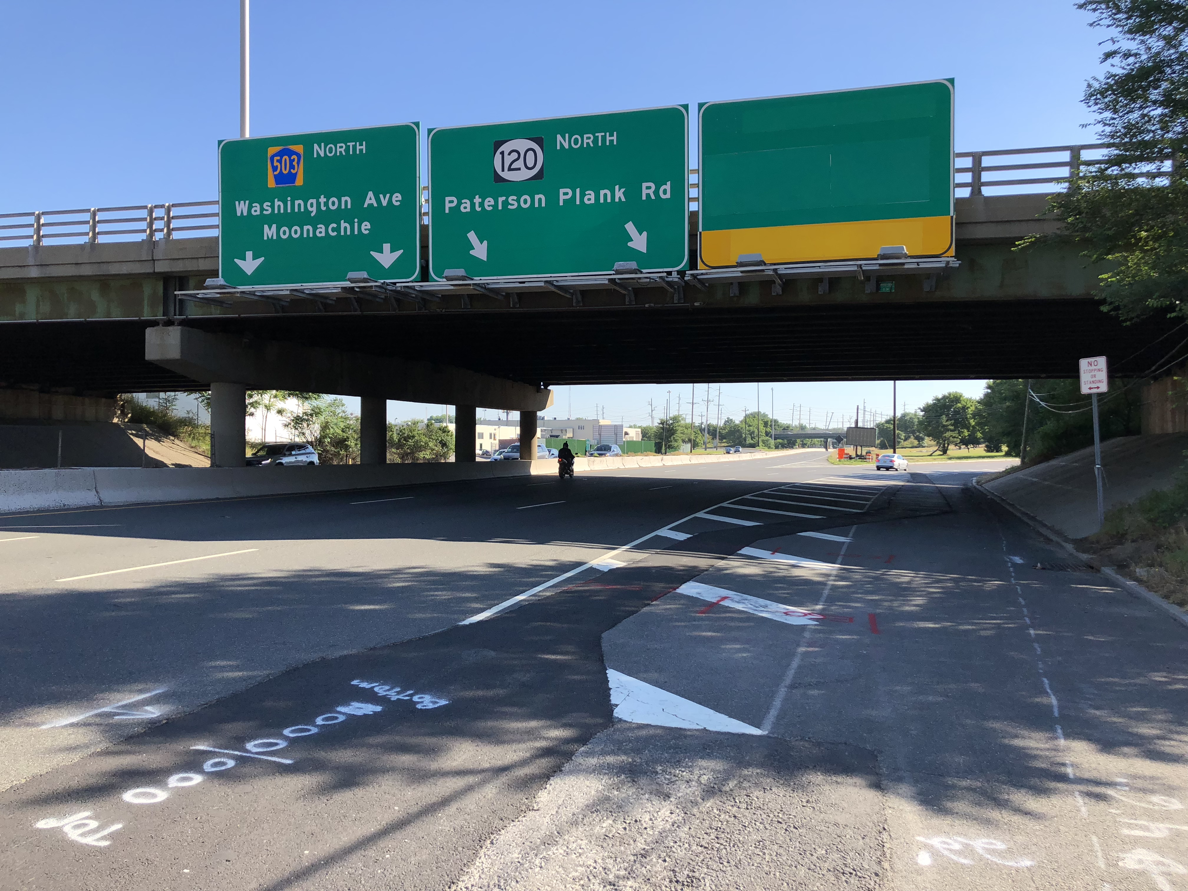 View north along New Jersey State Route 120 (Washington Avenue) at the exit for Bergen County Route 503 NORTH (Washington Avenue, Moonachie) in East Rutherford, Bergen County, New Jersey